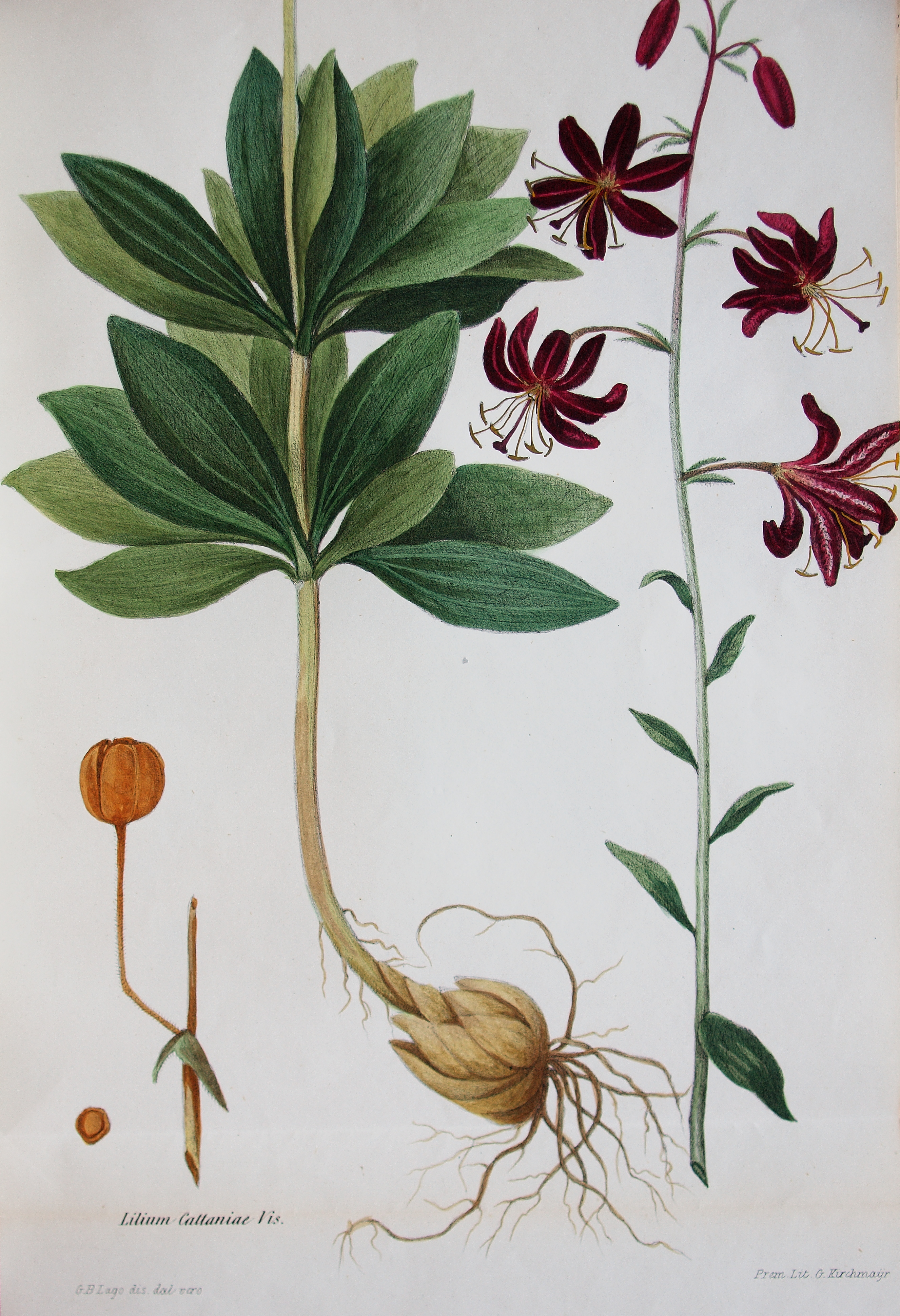 Lilium cattaniae Vis. Flora Dalmatica 1872